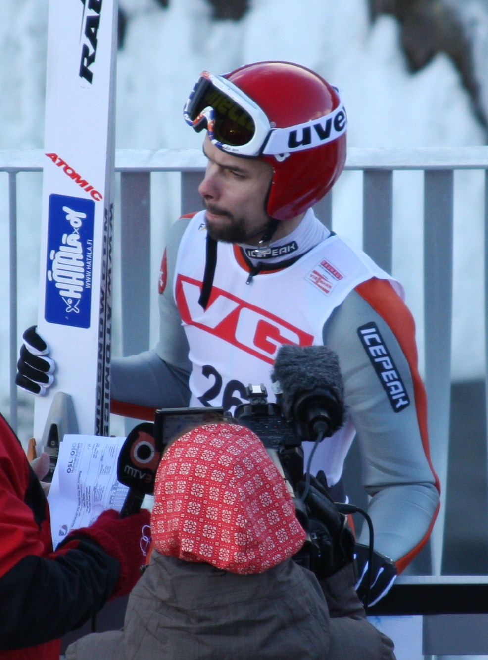 Matti Hautamäki (Finland) after WC tournament in Holmenkollen, march 2010